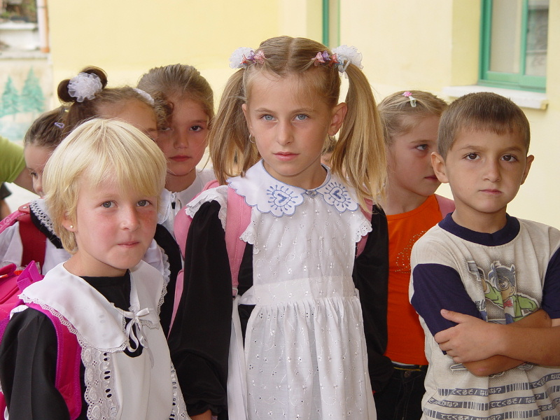 Albanian children at school in northern AlbaniaTiếng Việt: Trẻ em tại trường học ở miền bắc Albania